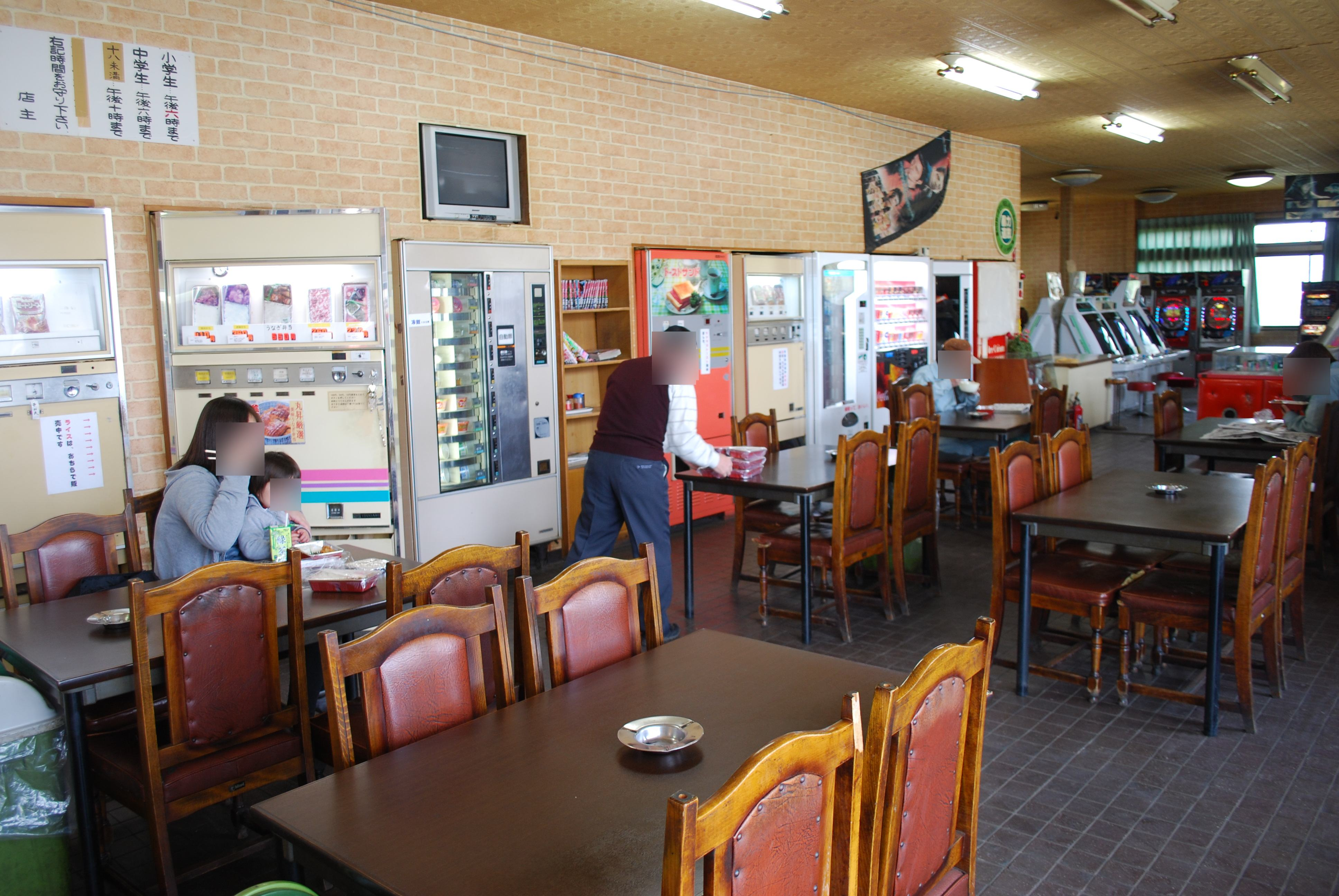 Automat,Auto Restaurant,24Marusyou,Katori-city,Japan